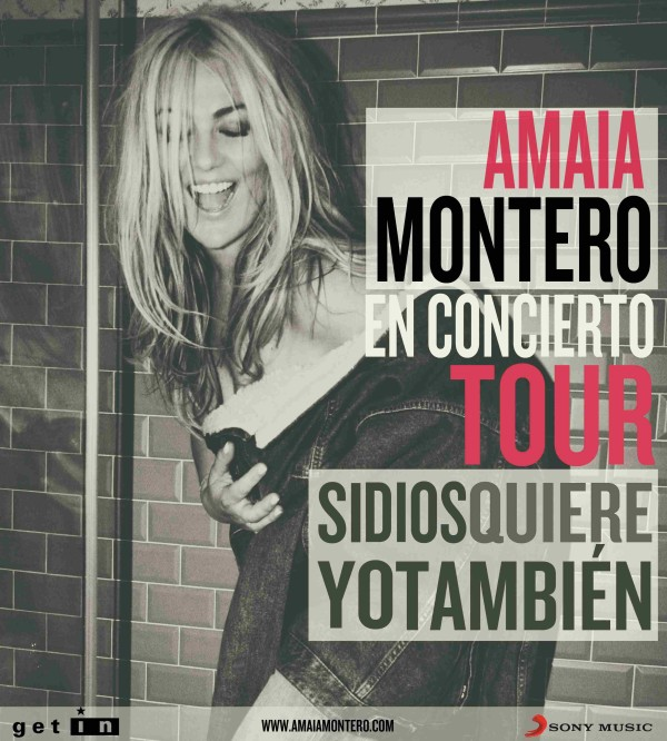 Foto promocional del Tour